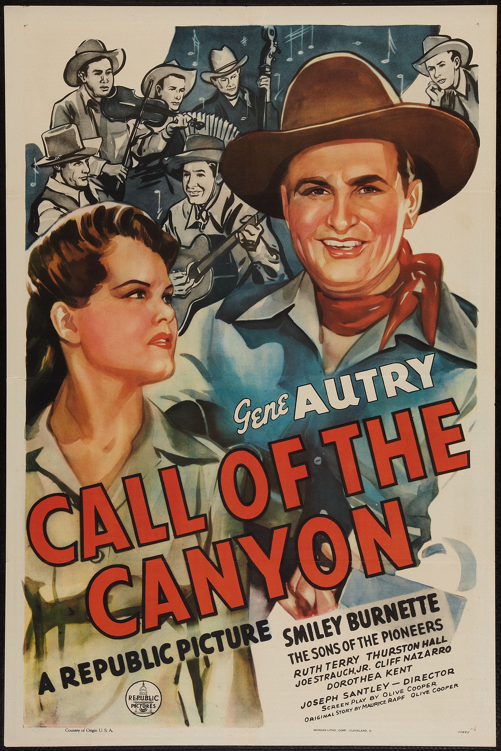 Poster for the 1942 film Call of the Canyon. The item has no copyright markings on it as can be seen in the links above. At bottom is Country of origin USA, Morgan Litho Corp, Cleveland, O-they printed the poster-and 22895.